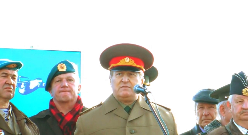 Col. Gen. Vladislav Achalov at the Veterans Meeting in Moscow on November 7, 2010.